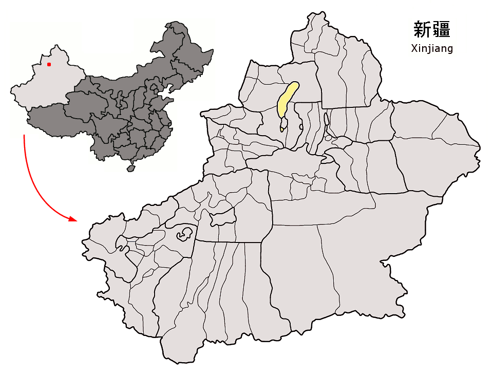 Location of Karamay Prefecture (yellow) within Xinjiang autonomous region of China Map drawn in september 2007 using various sources, mainly : Xinjiang Uygur autonomous region administrative regions GIS data: 1:1M, County level, 1990 Xinjiang Counties map from